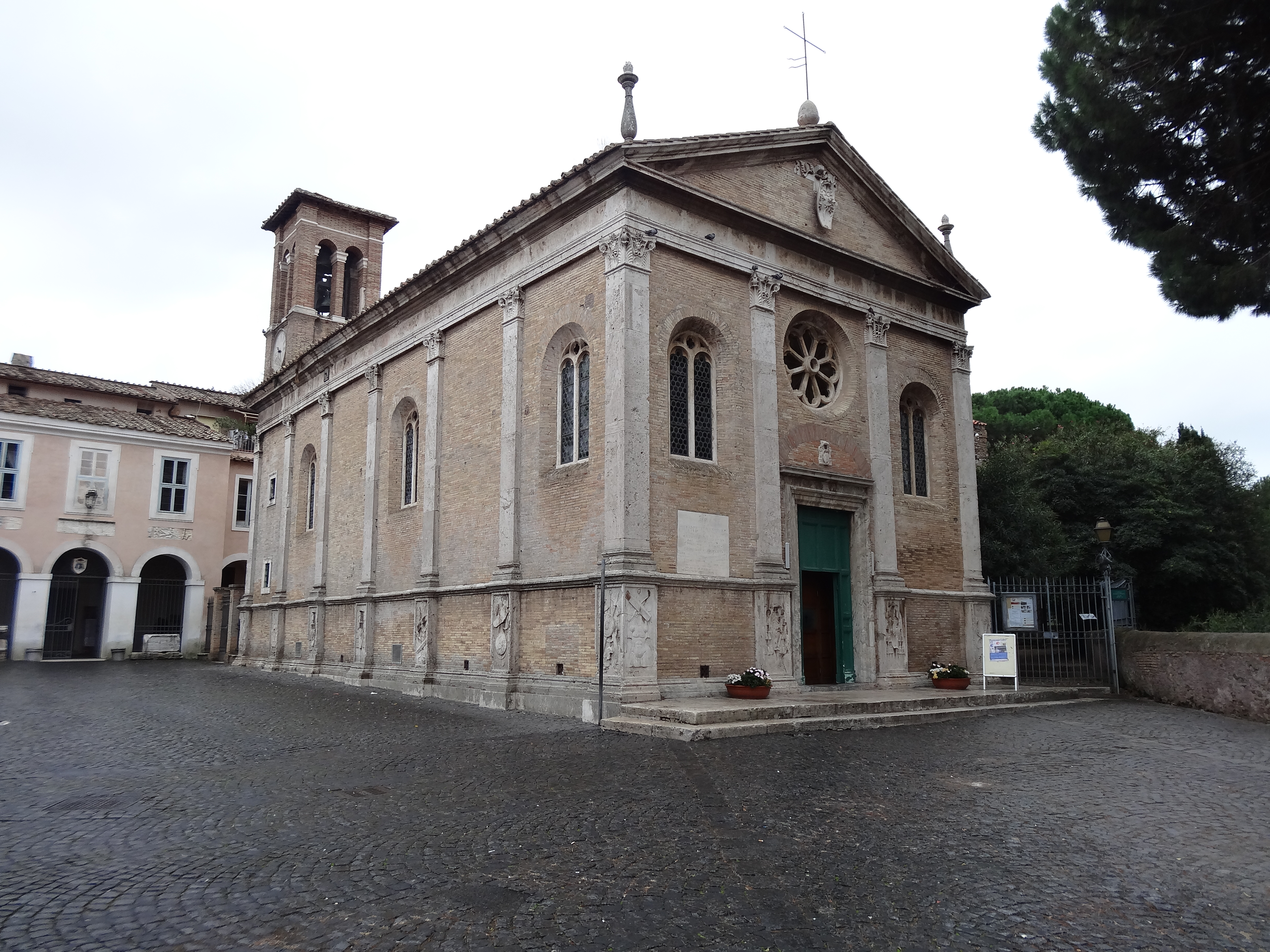 Basilica di Sant'Aurea